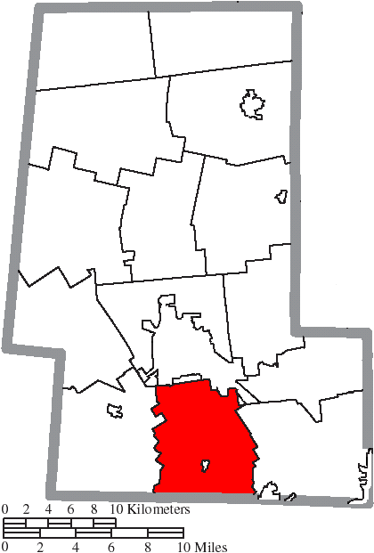 Map of the municipal and township boundaries of Union County, Ohio, United States, as of the 2000 census, with the location of Darby Township highlighted. Township borders are shown only in unincorporated areas in order to differentiate incorporated and unincorporated areas more clearly.